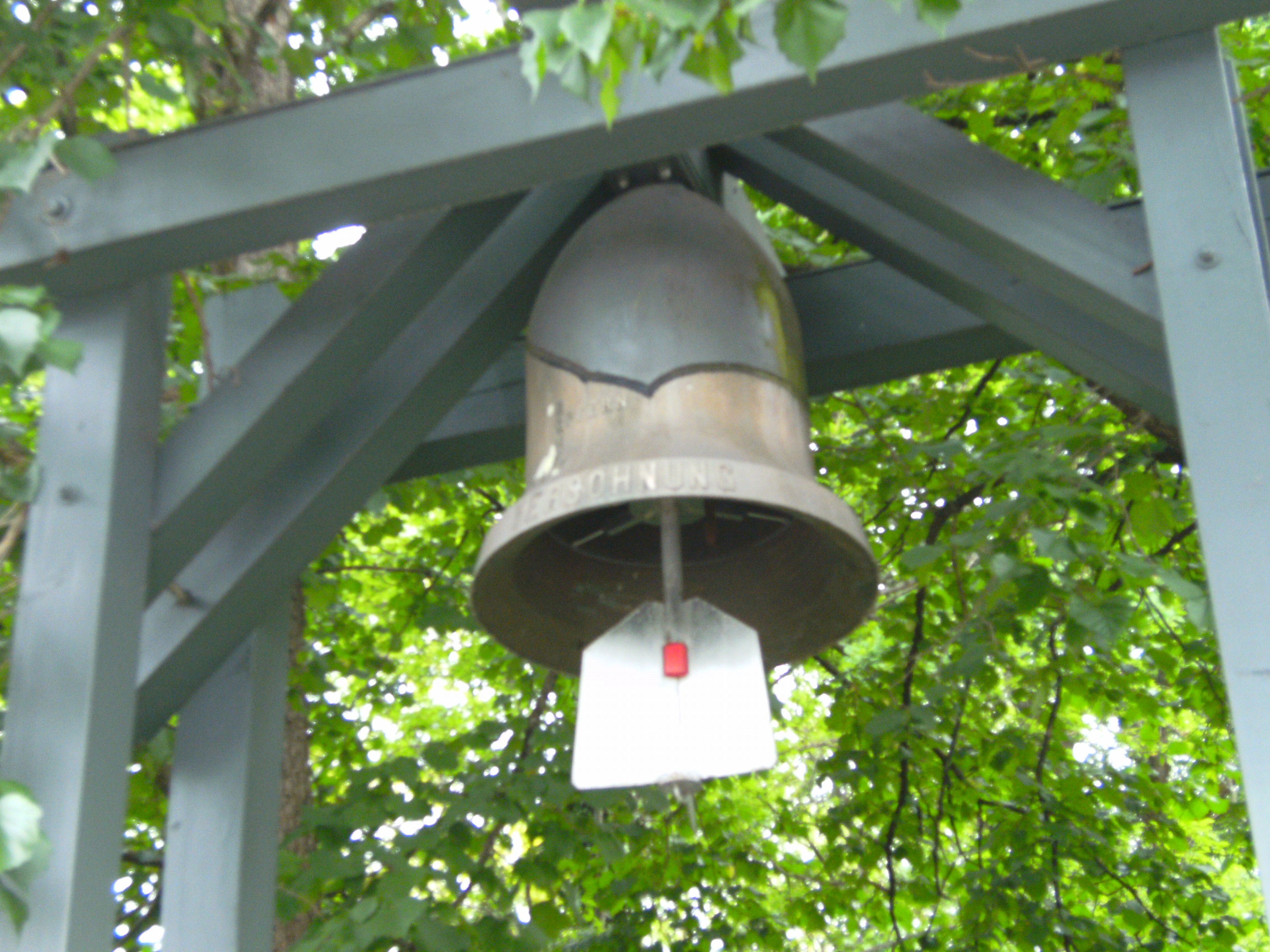 War cemetery for victims of bombing of Würzburg in World War II. Mass grave at the entrance to the Hauptfriedhof (central cemetery): Bell to remember in detail.